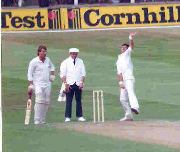 Dickie Bird Counting up to six. Standing in the Test Match. England v. NZ at Trent Bridge. The batsman standing at the non-striker's end is Ian Botham.